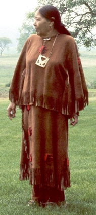 Photograph of Lenape elder Nora Thompson Dean in traditional deerskin dress, on a visit to Pennsylvania, ca. 1973.